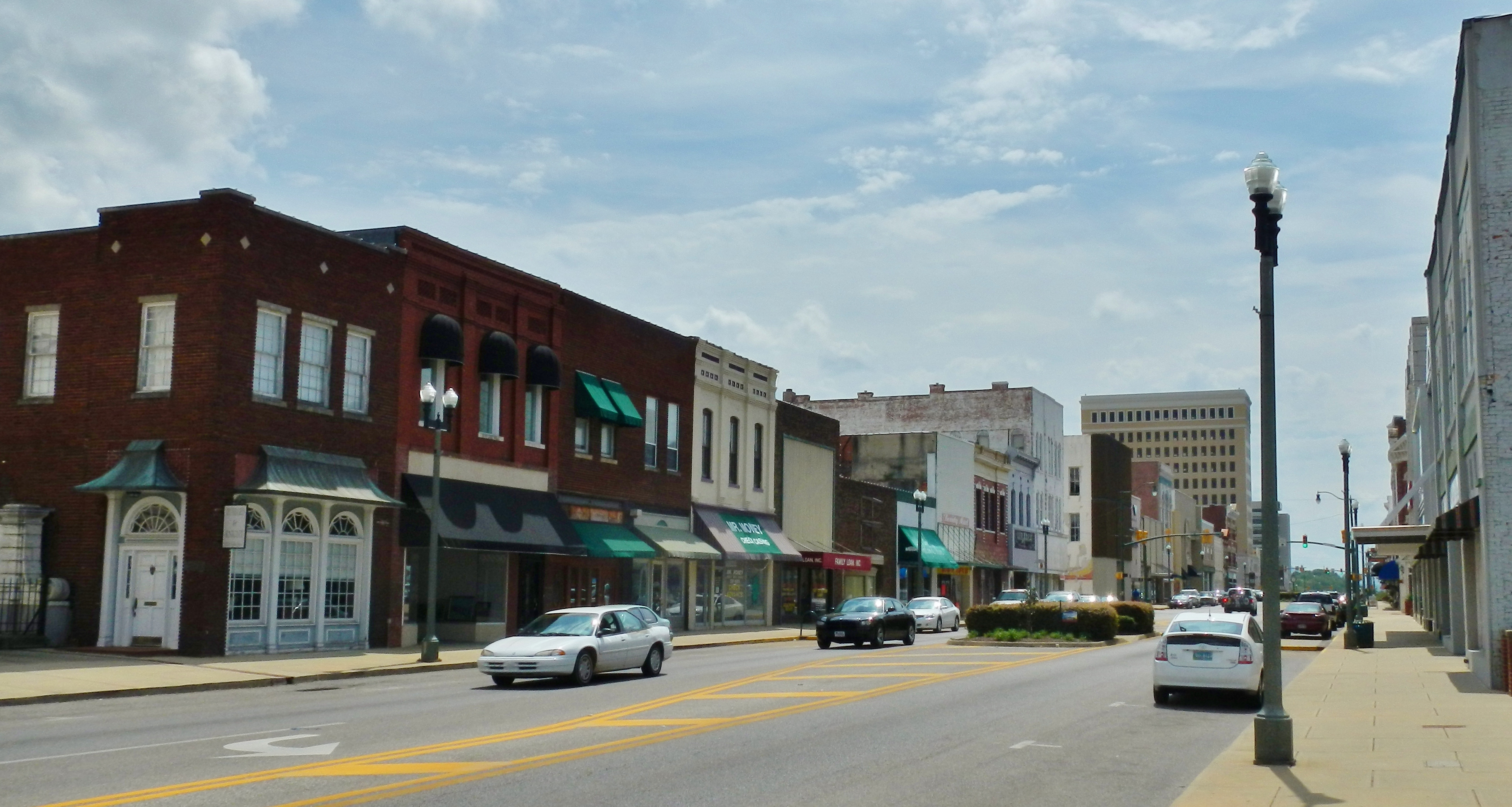 This is a photo of downtown Anniston, Alabama.